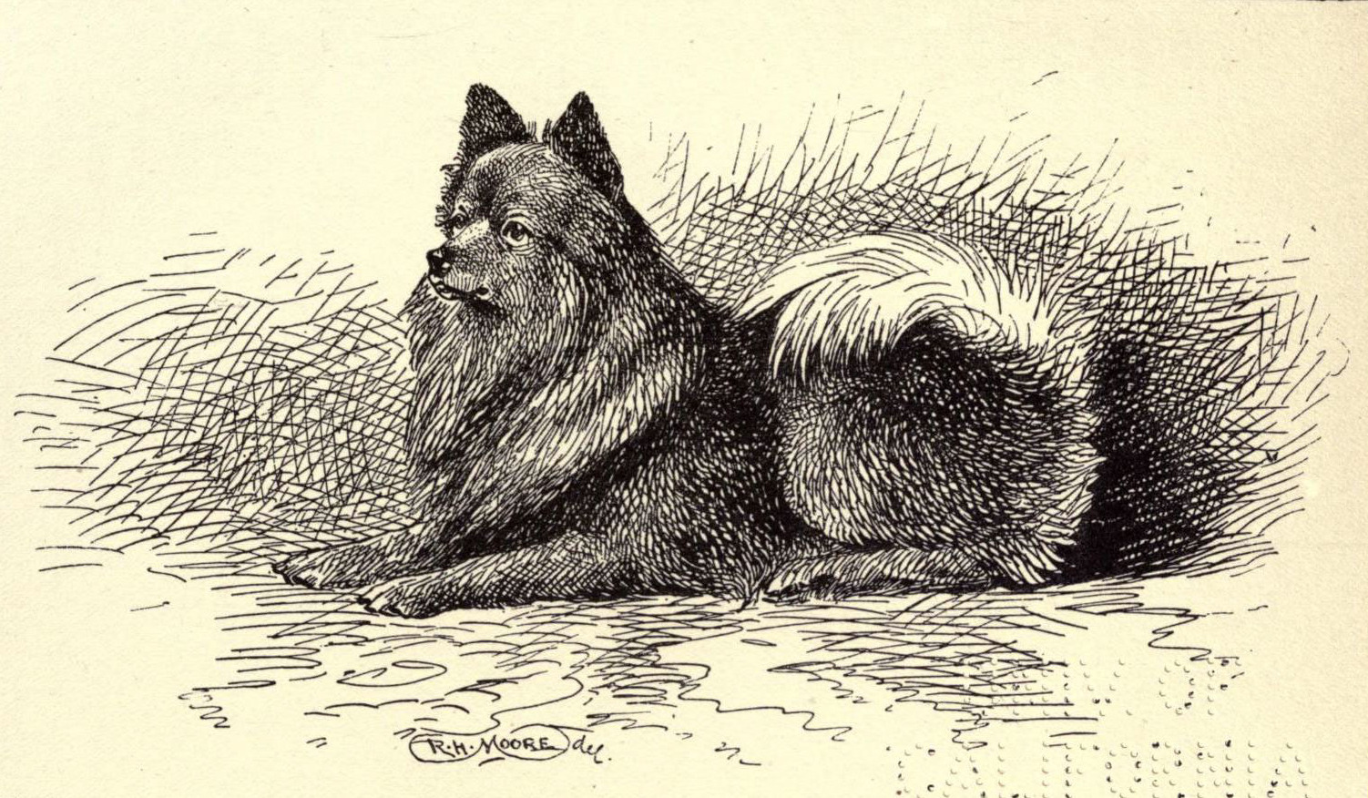 All about dogs; a book for doggy people New York,J. Lane,1900.